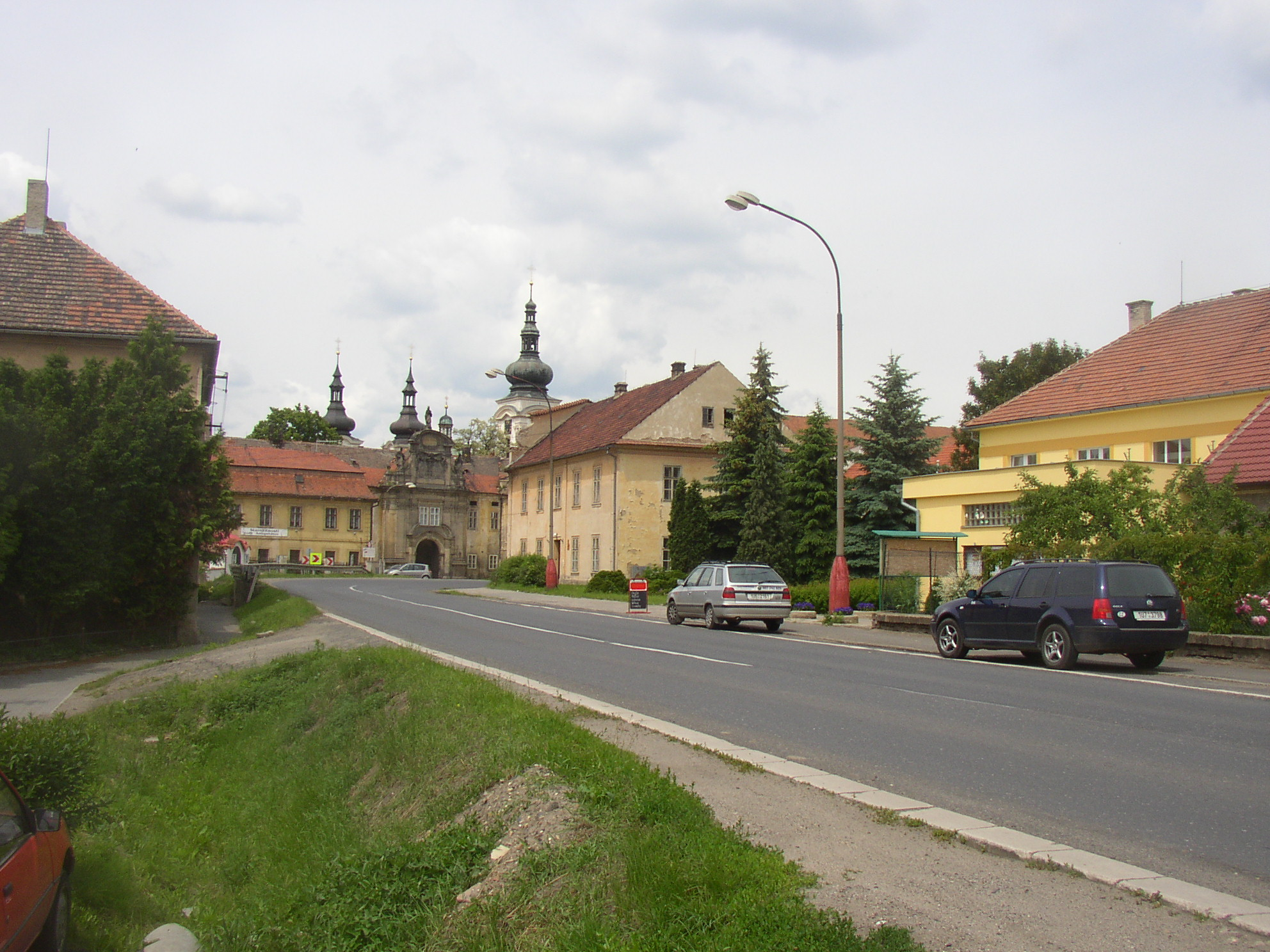 Doksany, Czech Republic. Old main road in the middle of the village. In the right seat of local administration, in the background gate of the Premonstratensian Convent.